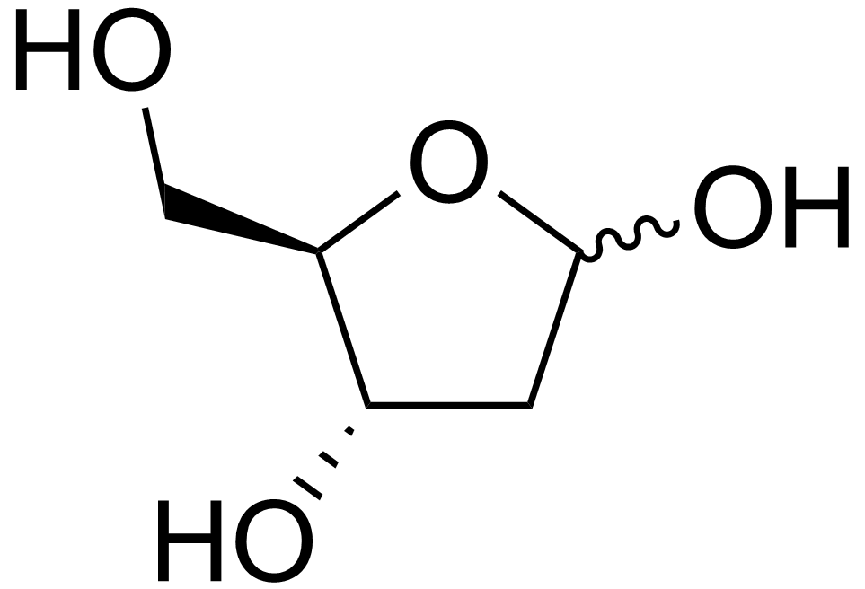 Chemical structure of D-deoxyribose